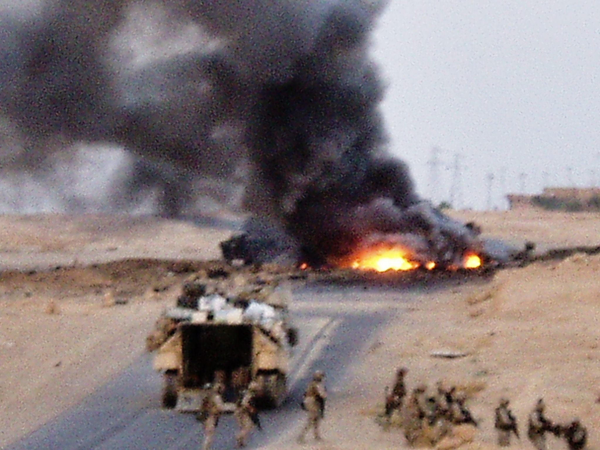 This is the horrific scene I witnessed as I escorted our corpsman down the road to see if we can help. So far, this was the deadliest roadside bombing in the Iraq war. 1 Marine survived, 14 did not.Deadliest Roadside Bombing